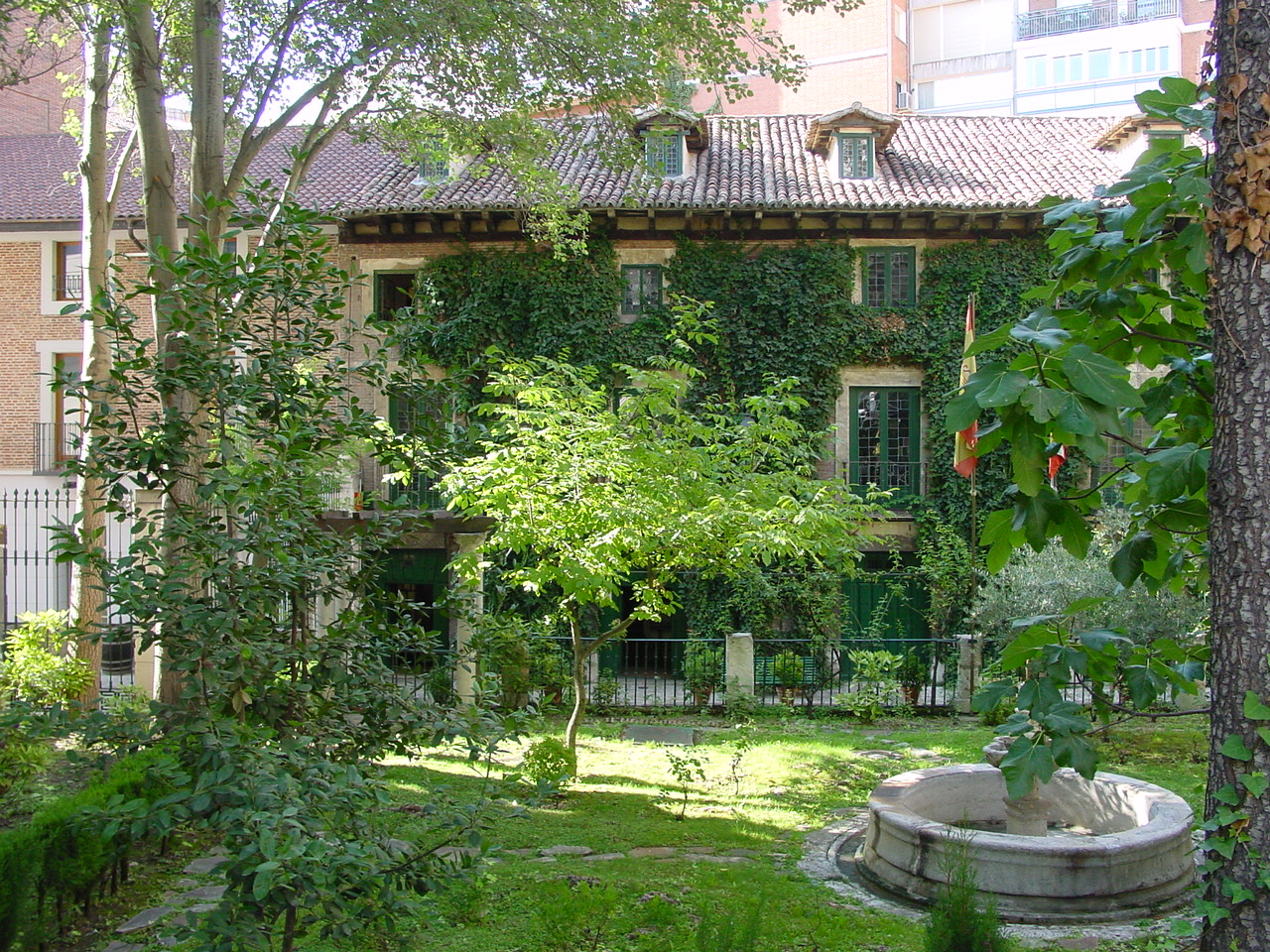 House of Miguel de Cervantes and his garden in Valladolid (Spain).